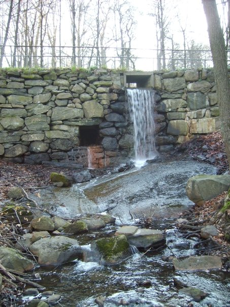 A part of a mill from 1900th century in Lackarebäck, Mölndal, Sweden.